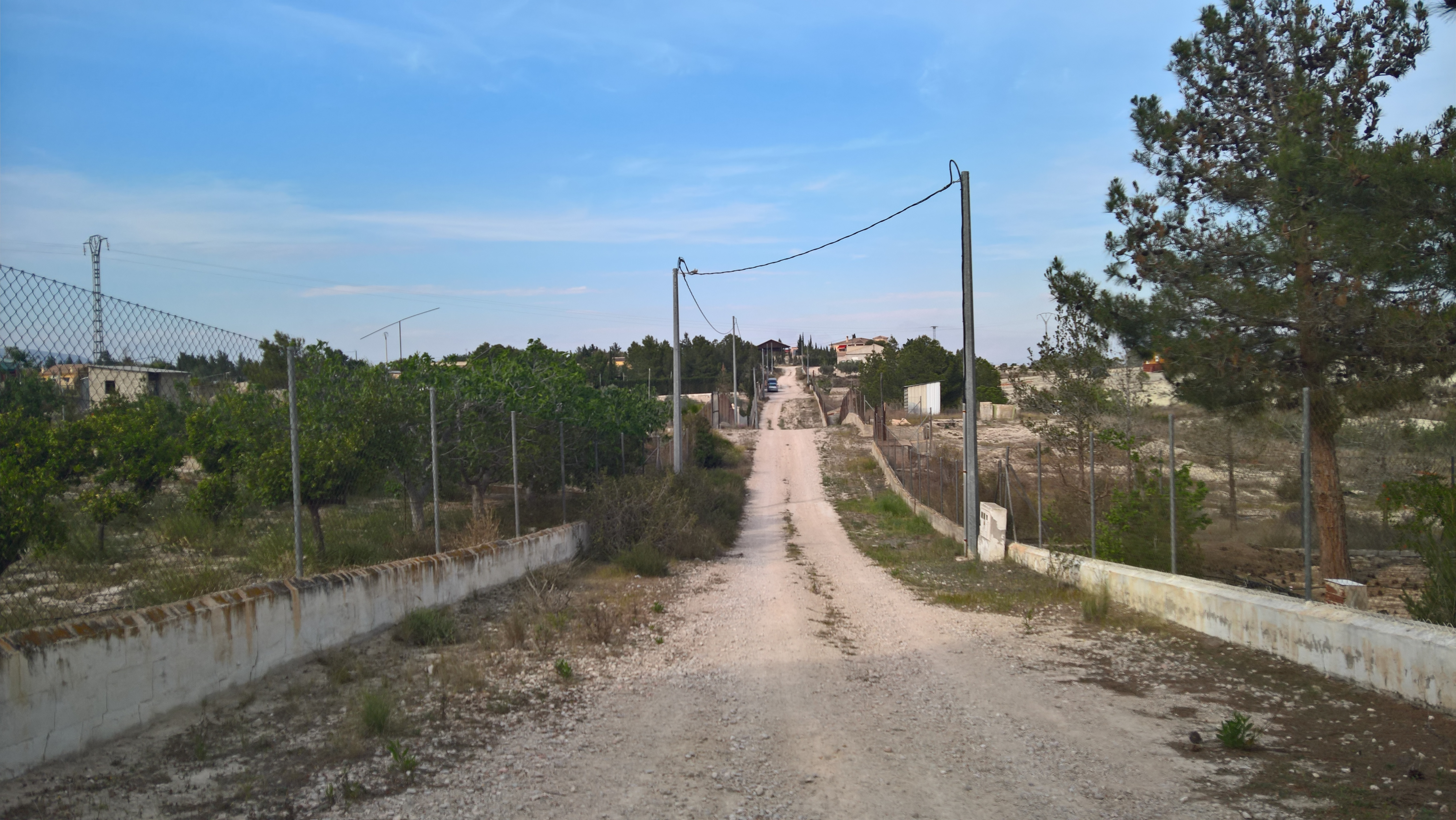 Paisaje de Los Valientes, pedania de Molina de Segura